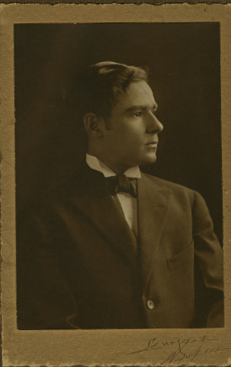 Photograph held by Robert W. Woodruff Library, Atlanta University Center, Atlanta University Photographs, box 1, folder "Johnson, Mordecai Wyatt."